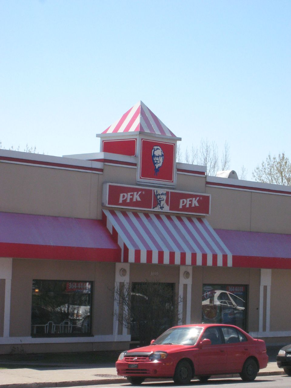 KFC exists in France, while in Quebec it is called PFK (Poulet Frit Kentucky). This one is in Montreal.